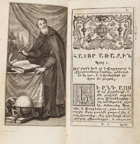 Страница из издания «Истории Армении» Мовсеса Хоренаци